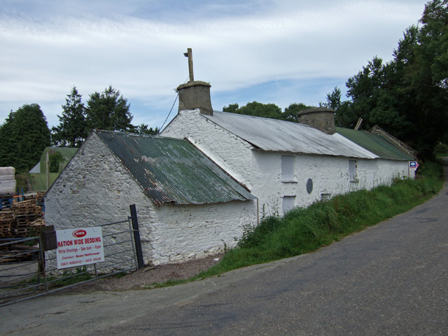 The Bold Tenant Farmer's Cottage Ballinascarty, near to Croppys Cross Roads, Curranvellikeen Cross Roads, Lisselan and Pedlars Cross Roads, Cork, Ireland. The inspiration for the lyrics of the song The Bold Tenant Farmer, this cottage in Ballinascarty was the home of Dan Walsh [1841 - 1906], and his wife Mary [1855 - 1932]. Link . They were among the first who offered passive resistance to the unjust demands of the Landlords' agents, by organising the first "Boycott". The word boycott entered the English language during the Irish "Land War" and is derived from the name of Captain Charles Boycott, the estate agent of an absentee landlord, the Earl Erne, in County Mayo, Ireland, who was subject to social ostracism organized by the Irish Land League in 1880 [source: Wikipedia].